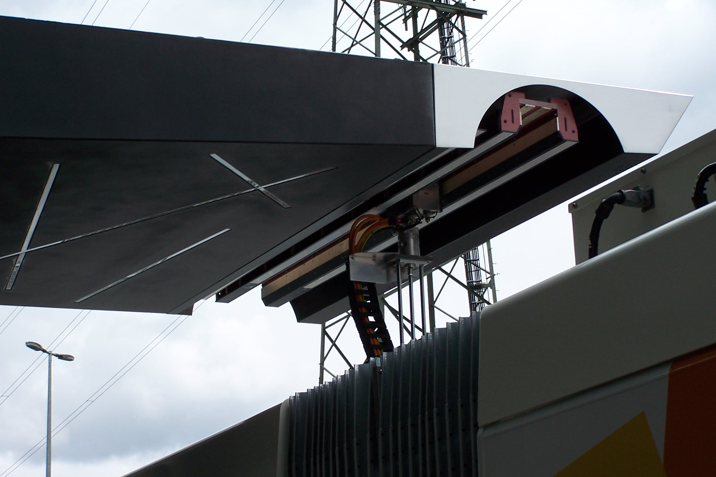 TOSA ("Trolleybus Optimisation du Système d'Alimentation" = French for "Trolleybus Optimized Power Supply") charging station at Geneva Airport stop. The pantograph is in contact with the overhead live rail and the bus is charging.